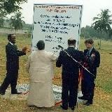 Former United States Ambassador Arlene Render dedicates the site of the new embassy in Abidjan.